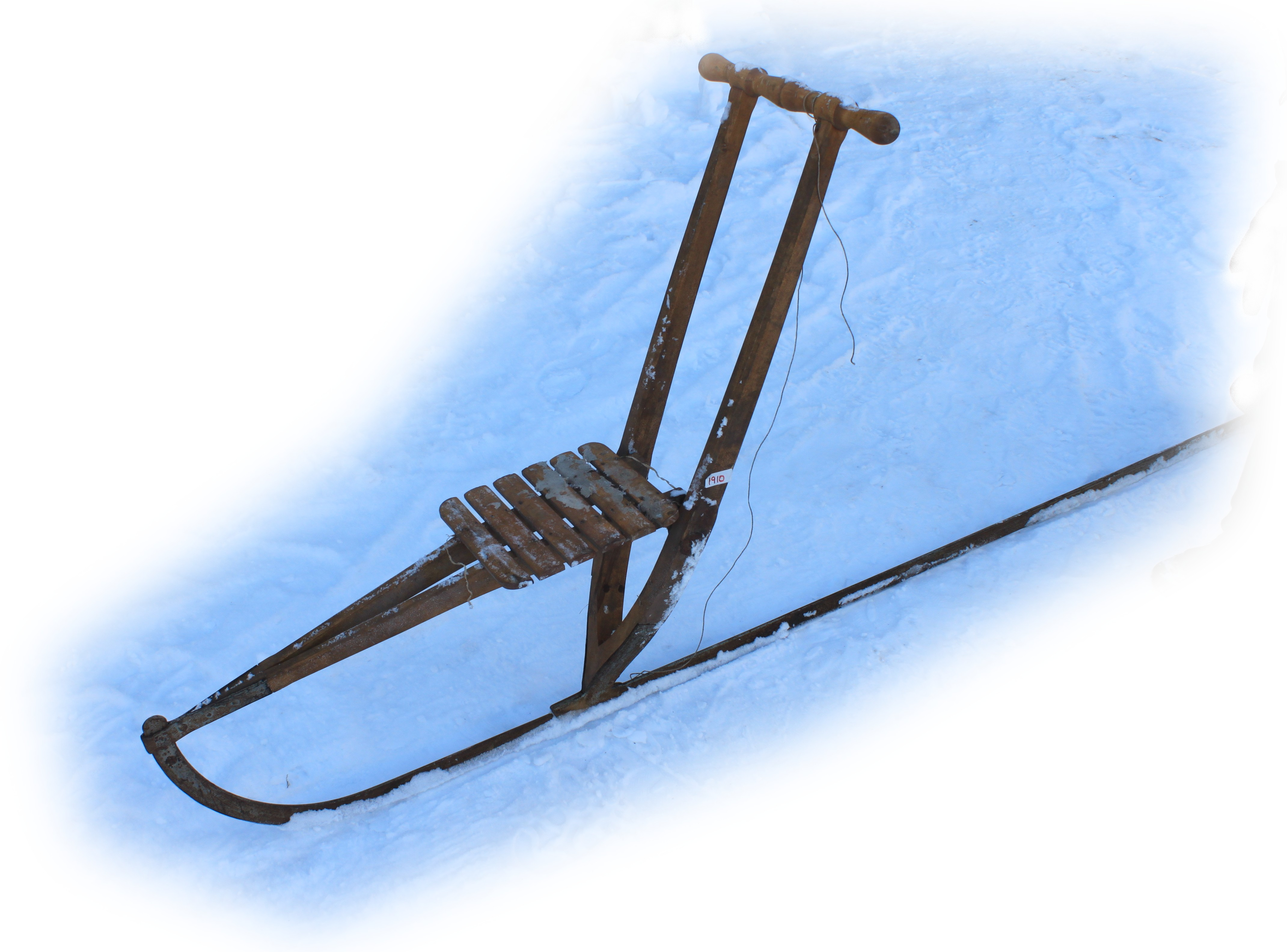 Mono runner kicksled from 1910